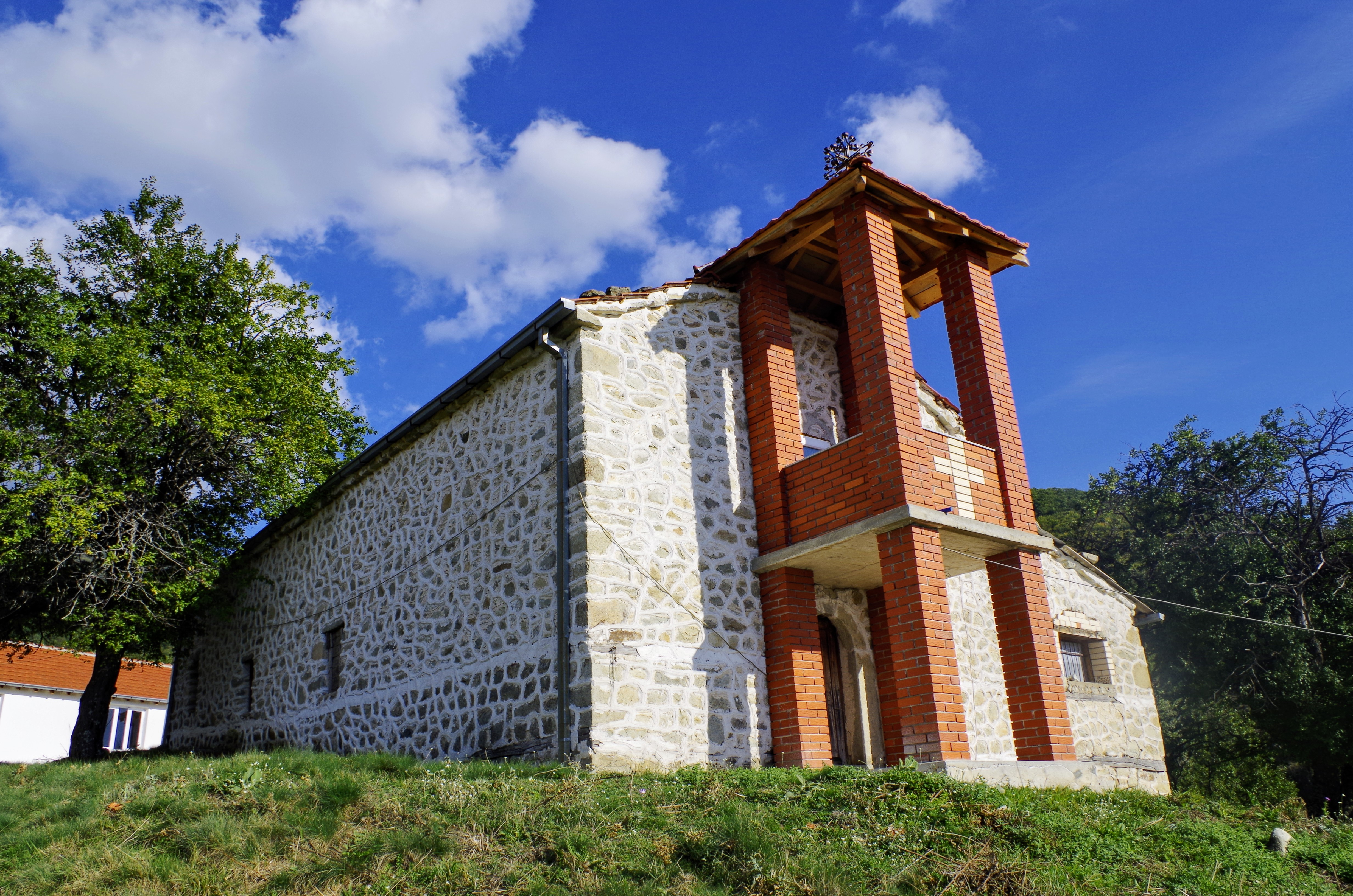 View of the St. Athanasius Church in the village Štrbovo